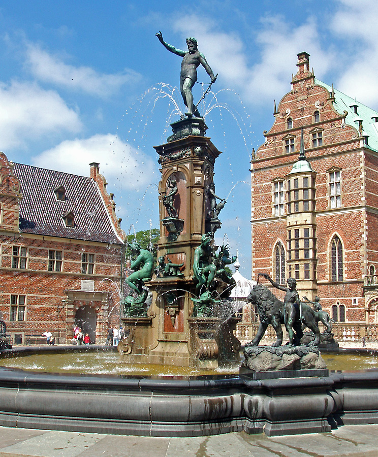 The Neptune Fountain. First erected 1622, recreated 1888. Frederiksborg Palace, Hillerød, Denmark. Photo by: Nico-dk/Nils Jepsen